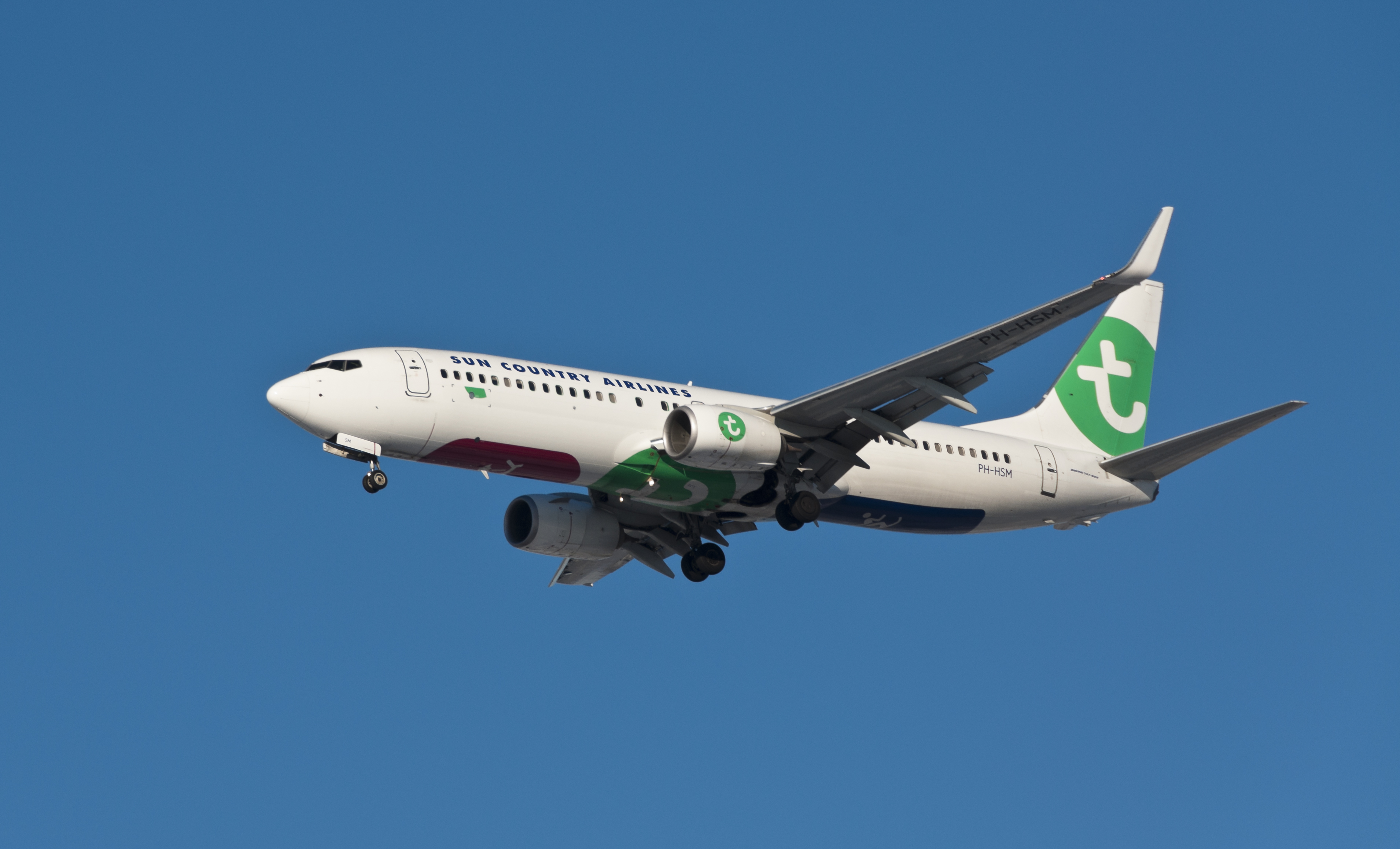 Sun Country Airlines flight 8690 on arrival to KCMH. Tail number PH-HSM, 737-800, on seasonal lease from Transavia, and wearing Transavia livery (with Sun Country titles).